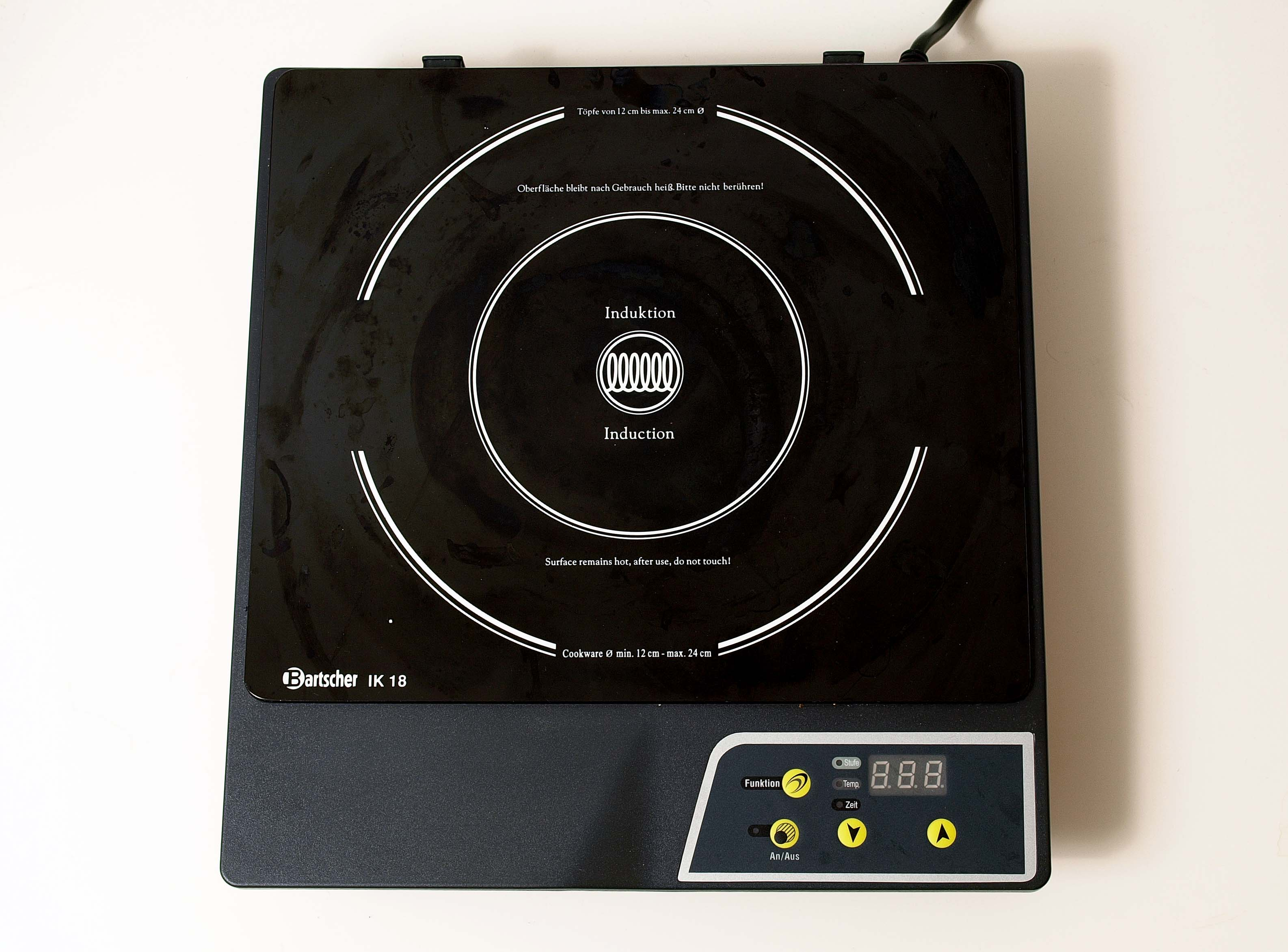 Single induction cooker plate